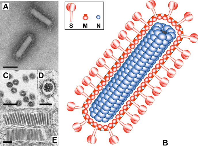 Virion morphology and morphogenesis of white bream virus (WBV), species White bream virus, the type species of genus Bafinivirus. (A) Negative staining electron micrograph of extracellular WBV particles (2% phosphotungstic acid, pH 7.4). (B) Schematic representation of the WBV virion. (C and D) Cross-sections of (C) intracytoplasmic nucleocapsids and (D) a virion, with the nucleocapsid seemingly organized by subunits arranged in helical symmetry. (E) Preformed WBV nucleocapsids in the cytoplasm arranged side by side at smooth membranes. All bars represent 100 nm.